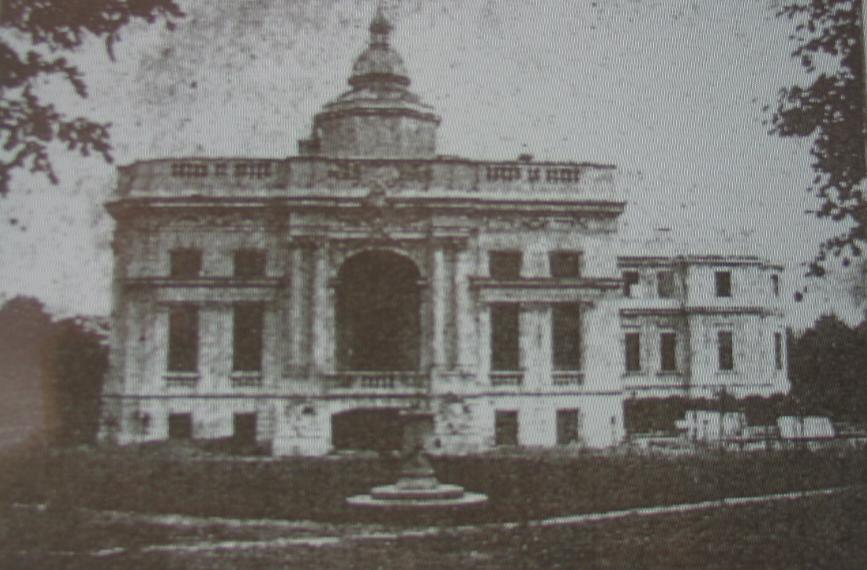 Julianów Palace in Łódź. The palace was built between 1885-1890 as a summer residence for Juliusz Heinzel. After the Heinzel family bankruptcy, the structure was purchased by the municipality of Łódź and intended for a Łódź region museum.[1] Burned down in September 1939 as a result of bombardment by the Germans and eventually pulled down by them the same year.[1]